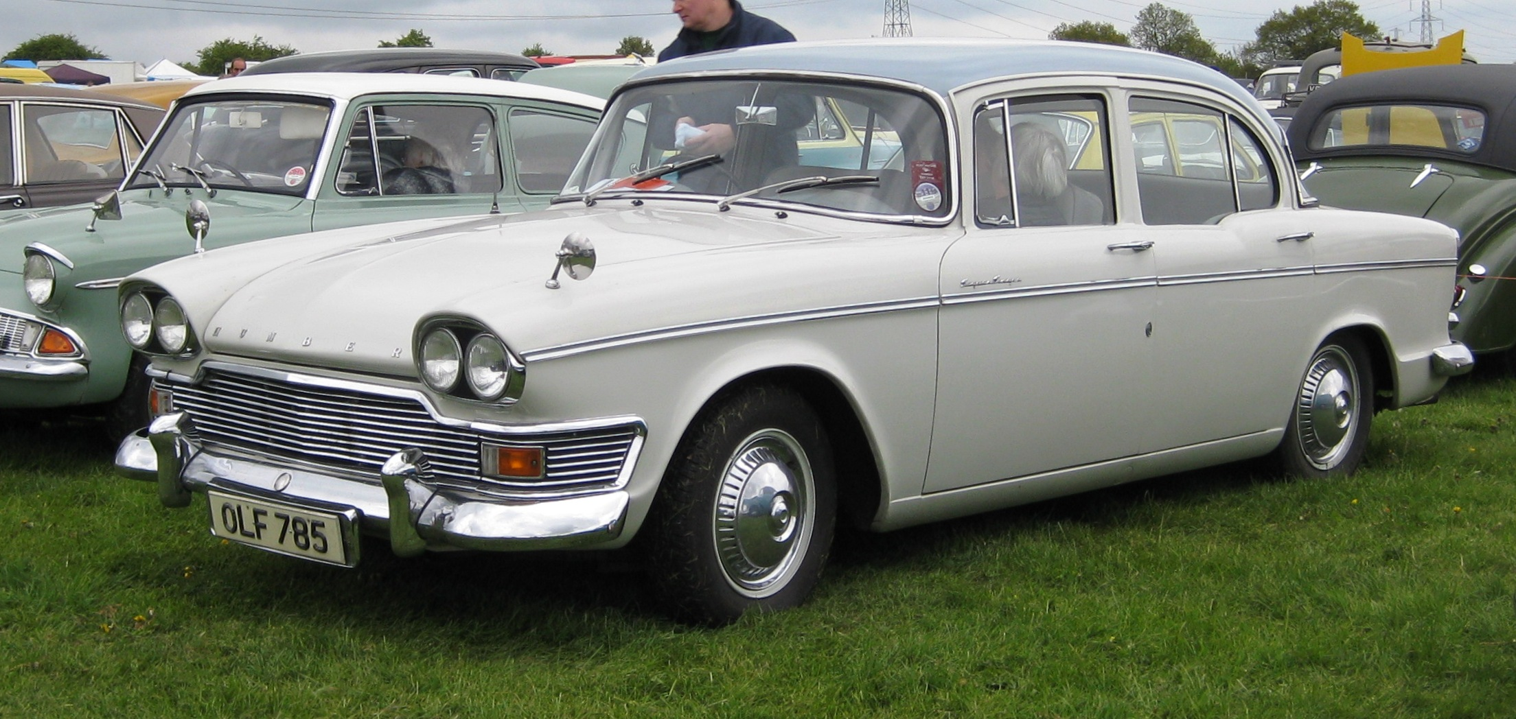 Humber Super Snipe Series III